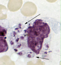 Leishmania tropica amastigotes from an impression smear of a biopsy specimen from a skin lesion.